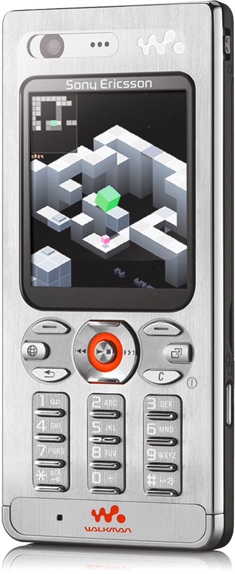 Screenshot of Edge gameplay mocked up on a Sony Ericsson mobile phone (SEMC: Sony Ericsson Mobile Communications)